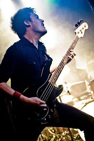 Bradley Grace of Poison The Well performing in Australia in 2009